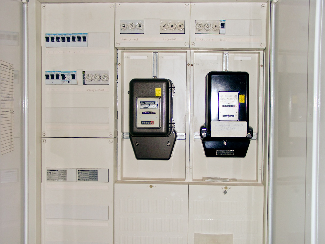 Main distribution board of a house